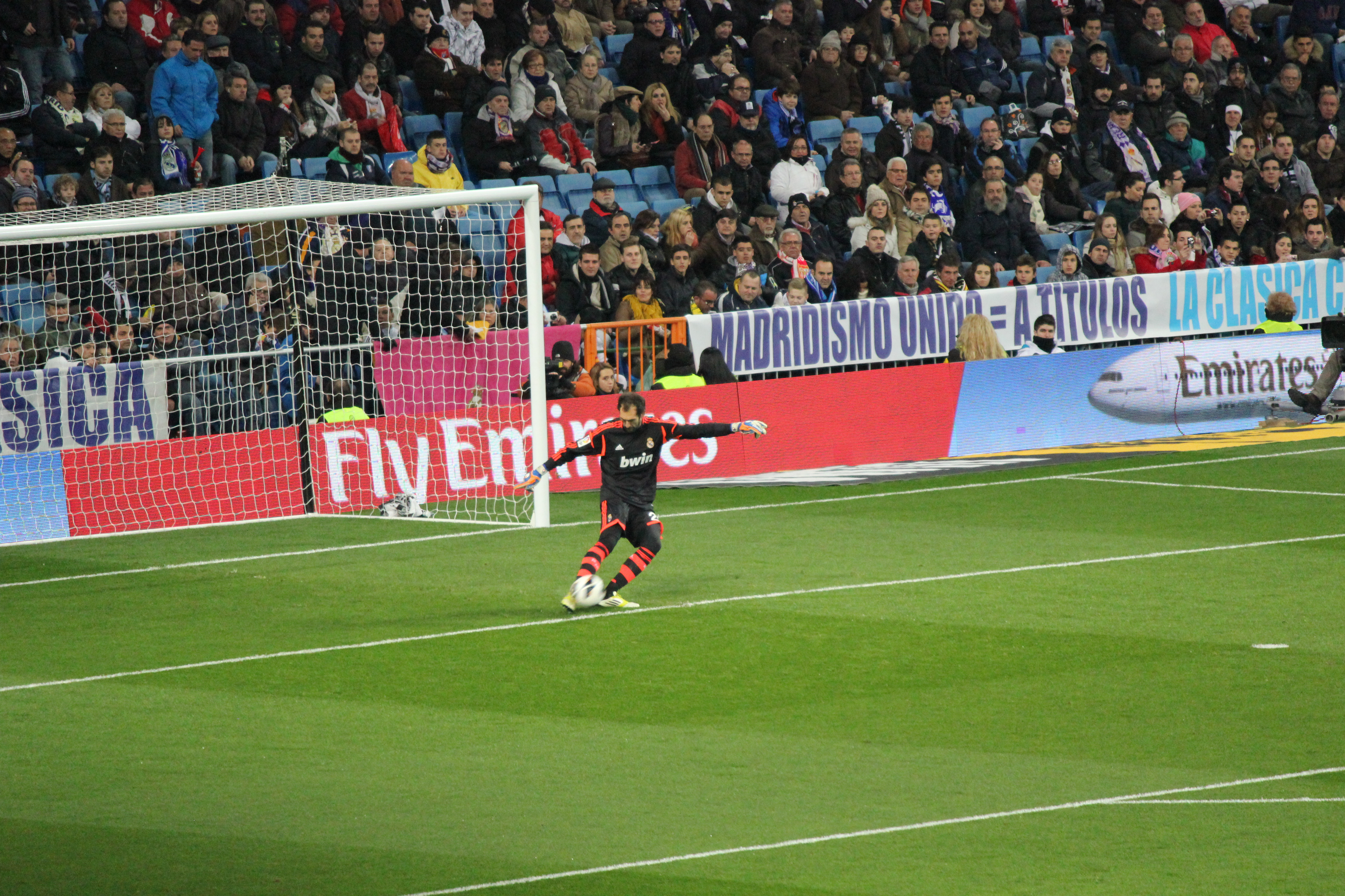 Real Madrid v Sevilla 10 February 2013 in a La Liga game at Real Madrid's home grounds.